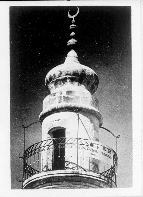 A sign in Hebrew on a mosque during the Battle of Haifa (1948): "The mosque is holy. Entrance is strictly forbidden. The Haganah"